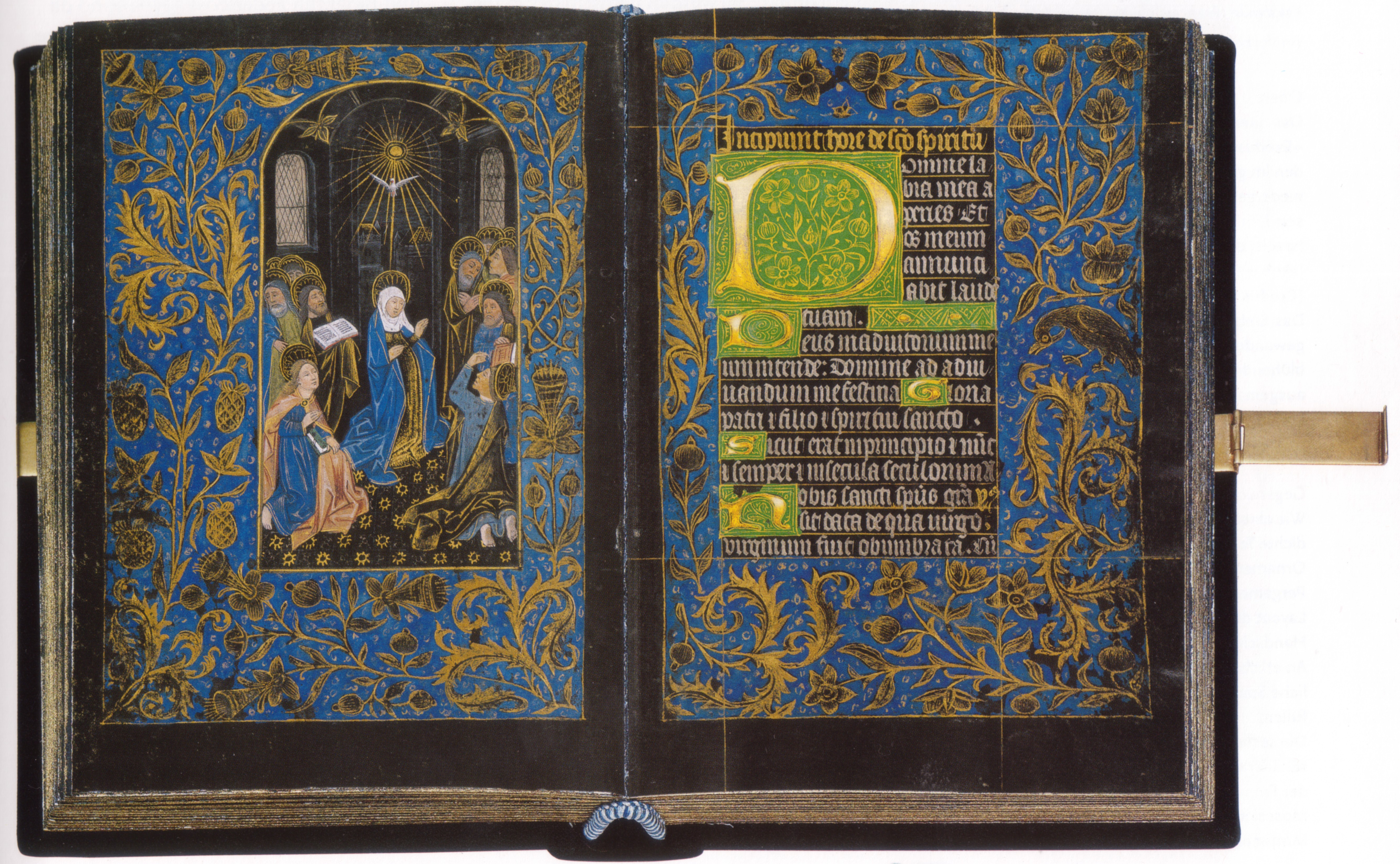 Black Hours (18v/19r); New York, Pierpont Morgan Library, M. 493